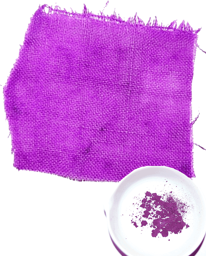 A small ammount of colorant ‹purple› and the coloration on fabrics in color ‹purple›.